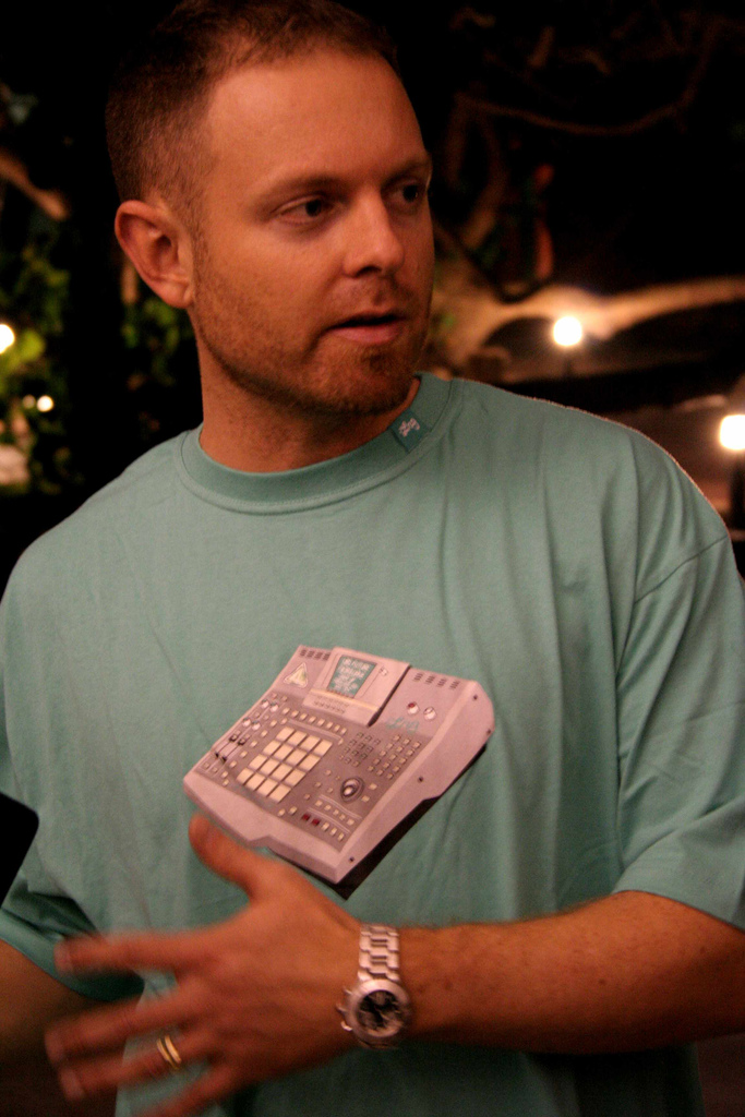 Photograph of DJ Shadow. The picture on the t-shirt is a MPC inspired graphic based loosely on the Akai MPC4000.